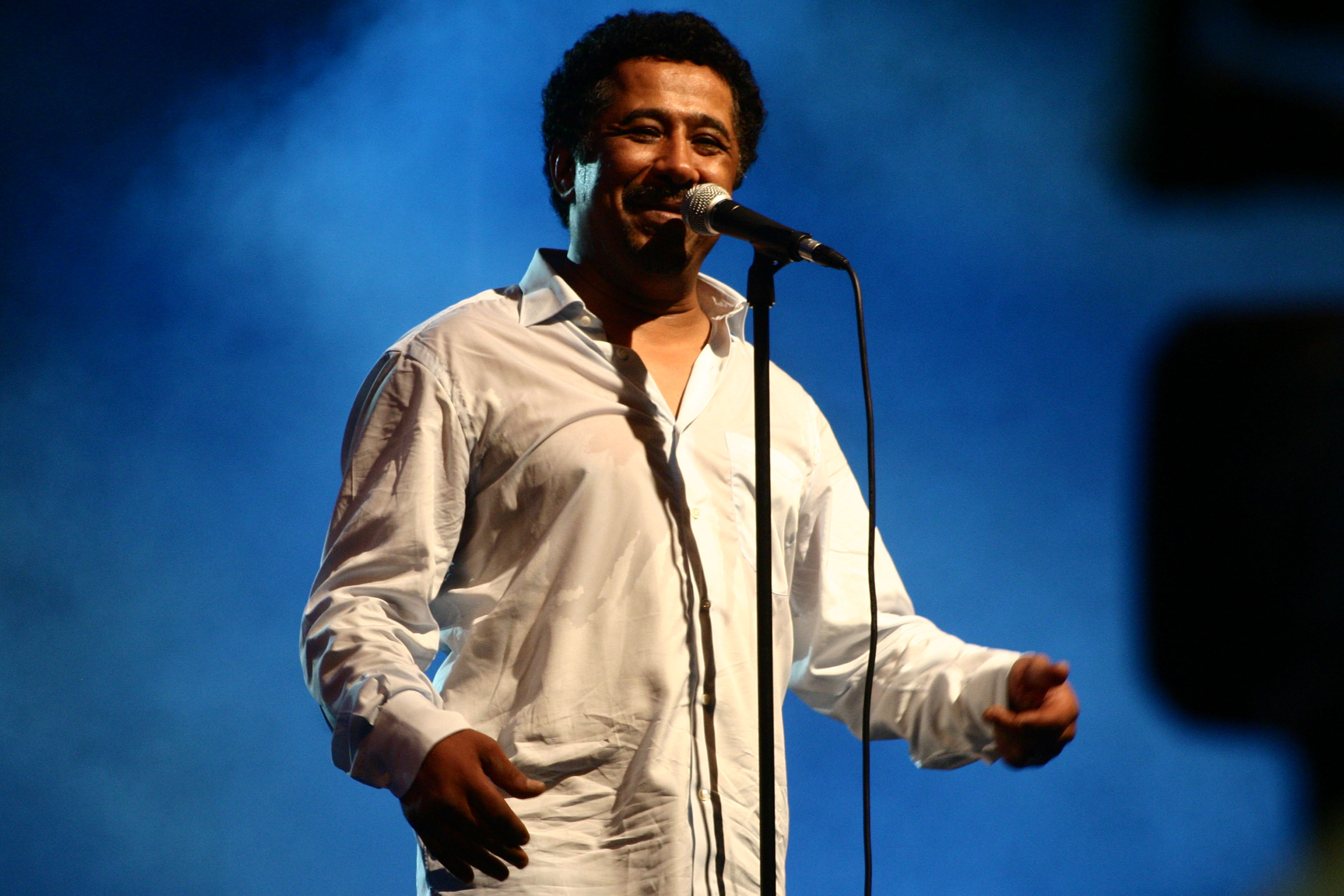 [Nazim Fethi] Cheb Khaled performed in Oran on July 5th. الشاب خالد أحيا حفلة موسيقية في وهران يوم الخامس من يوليو Cheb Khaled s'est produit à Oran le 5 juillet.